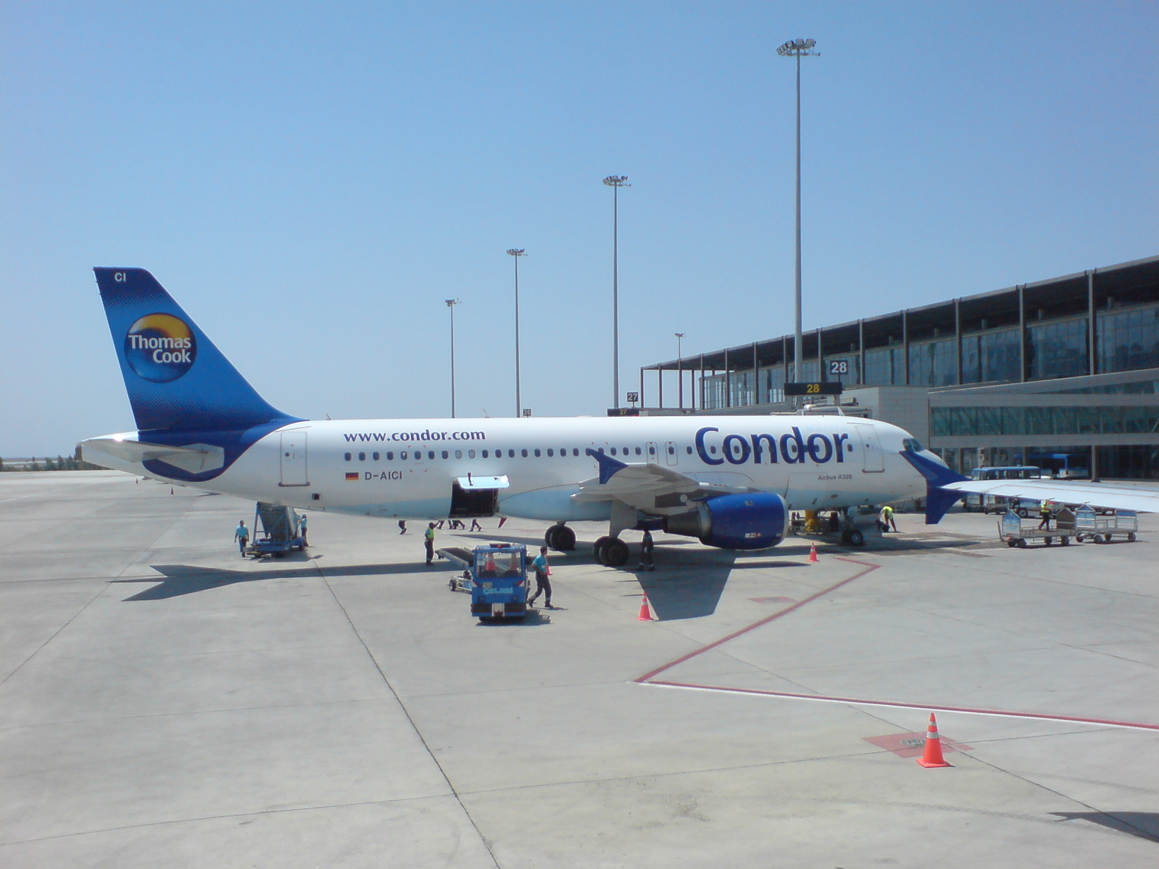 An Airbus A 320-212 (reg. D-AICI) on 9th August 2008 at Dalaman Airport, Turkey